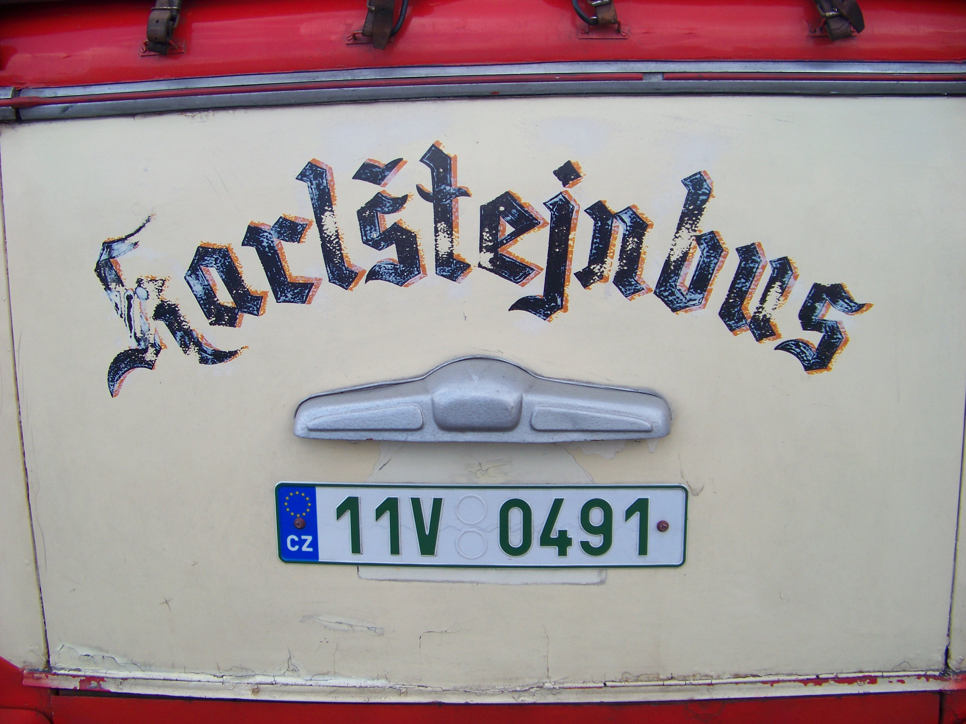 Králův Dvůr, Beroun District, Central Bohemian Region, Czech Republic. Pod Hájem 97, PROBO BUS ground. Open doors day. Karlštejnbus.